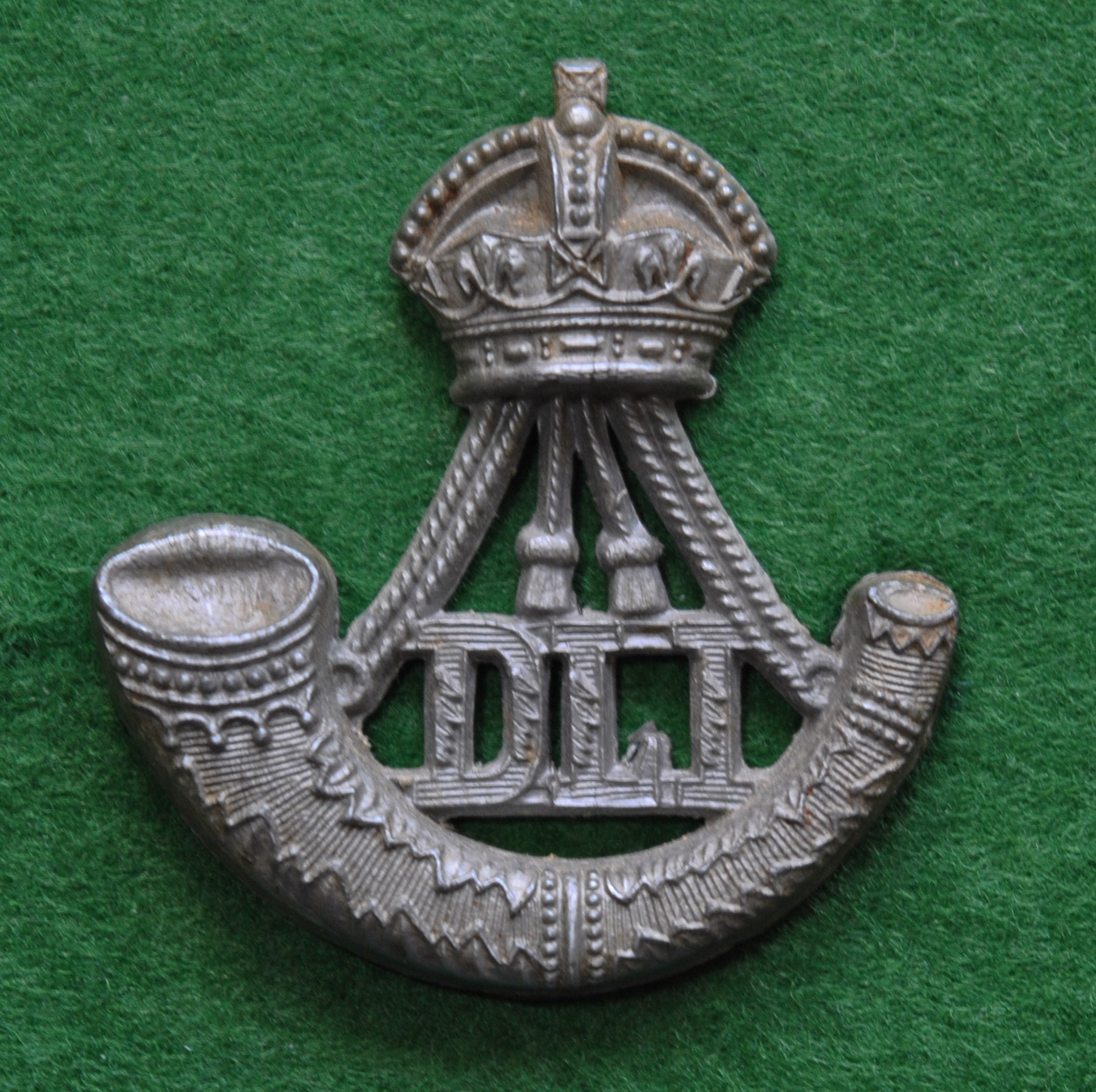 D.L.I. cap badge, King's crown version, plastic WW2 economy version 1942-1945